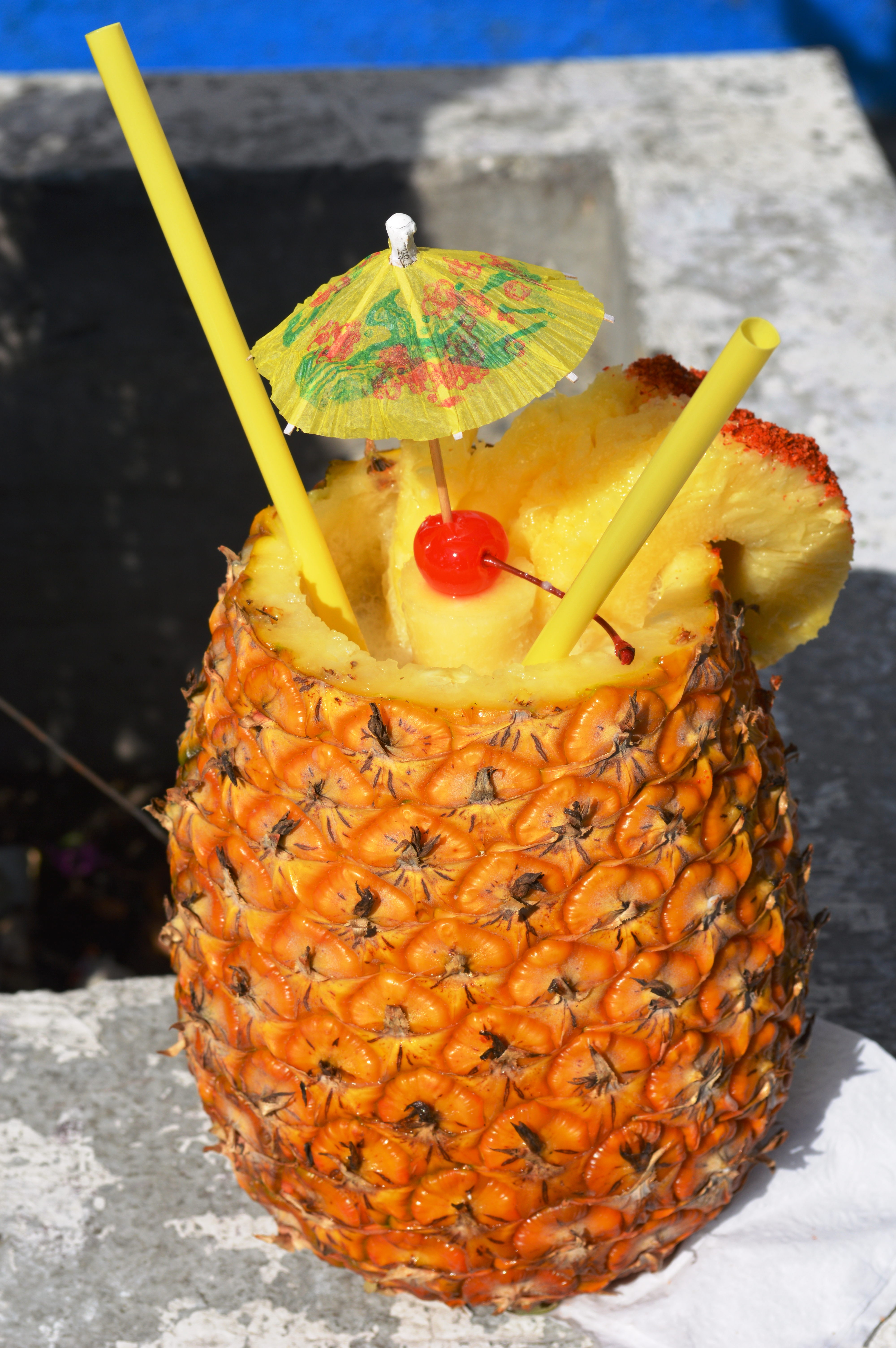 piña colada served in a pineapple at the Carnival of Santa Marta Acatitla, Iztapalapa, Mexico City